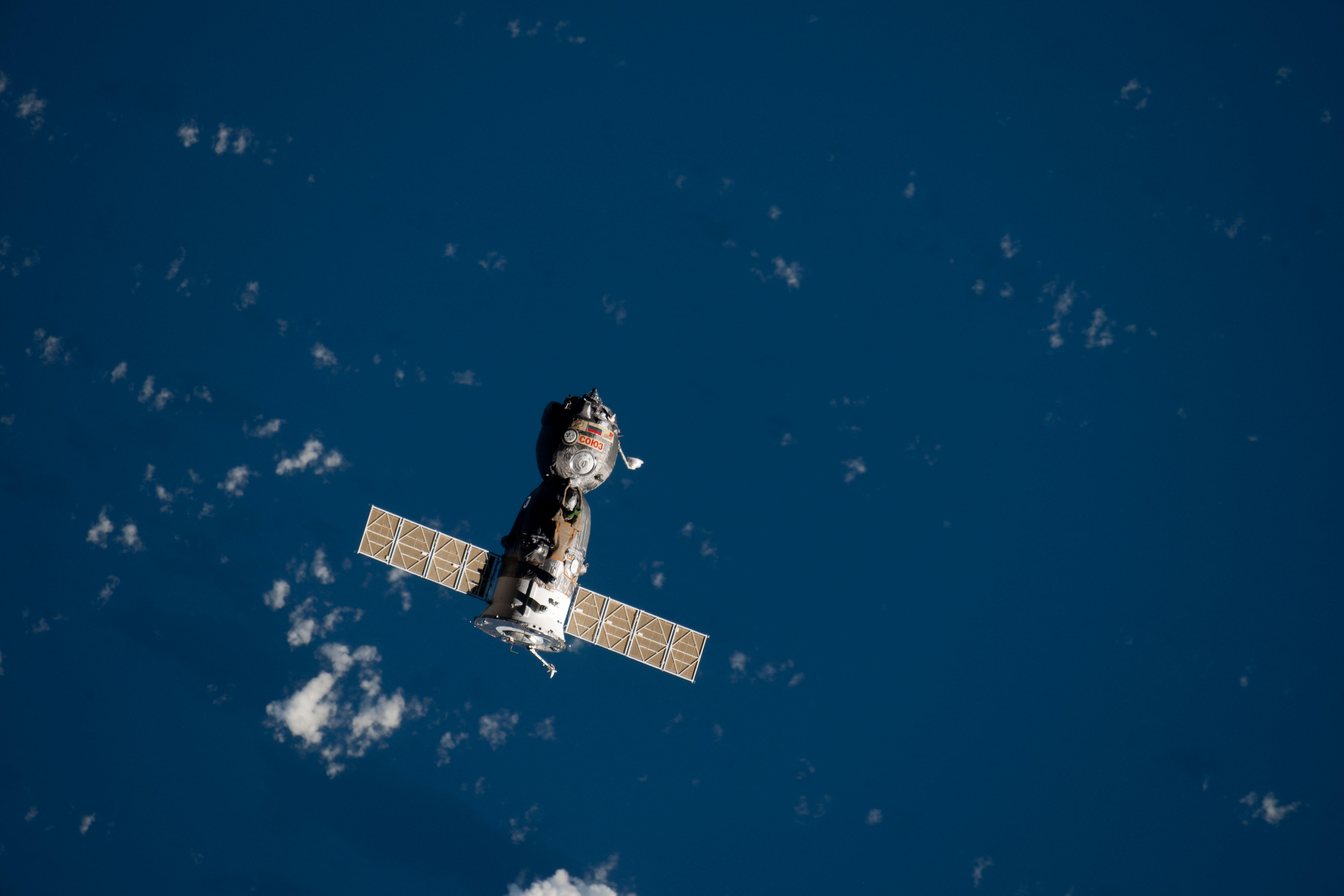 The Soyuz TMA-18 spacecraft departs the International Space Station on Sept. 24, 2010. Onboard are three members of Expedition 24 – Russian cosmonaut Alexander Skvortsov, commander; along with NASA astronaut Tracy Caldwell Dyson and Russian cosmonaut Mikhail Kornienko, both flight engineers.